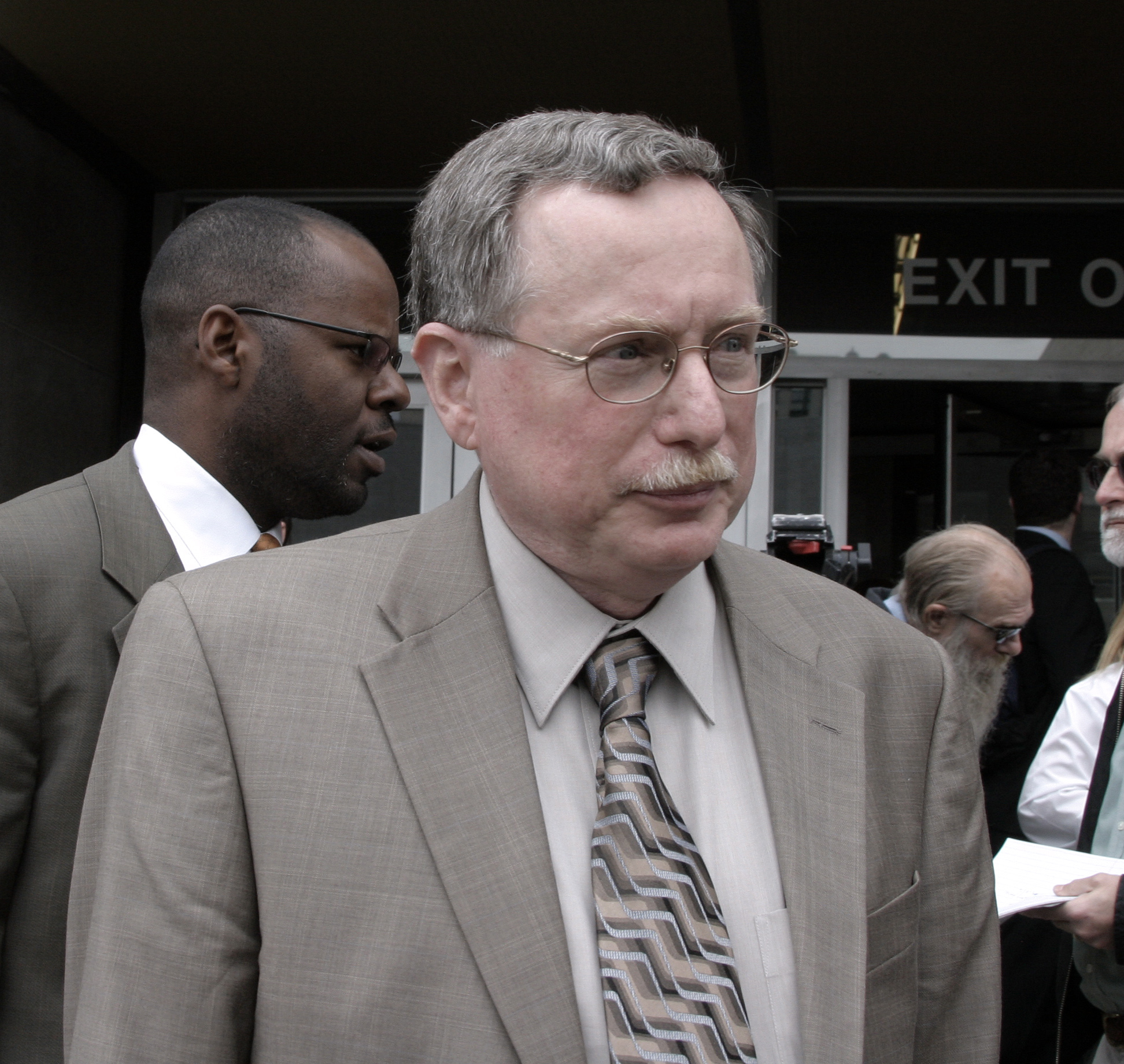 Mark Klein is a former AT&T technician who blew the whistle on the telecom giant for their cooperation with the Bush Administrations illegal warrantless wiretapping program. Klein came forward with hundreds of pages of documents showing how AT&T broke the law and gave the NSA unfettered access to their customer's records and calling data. Photo by Quinn Norton